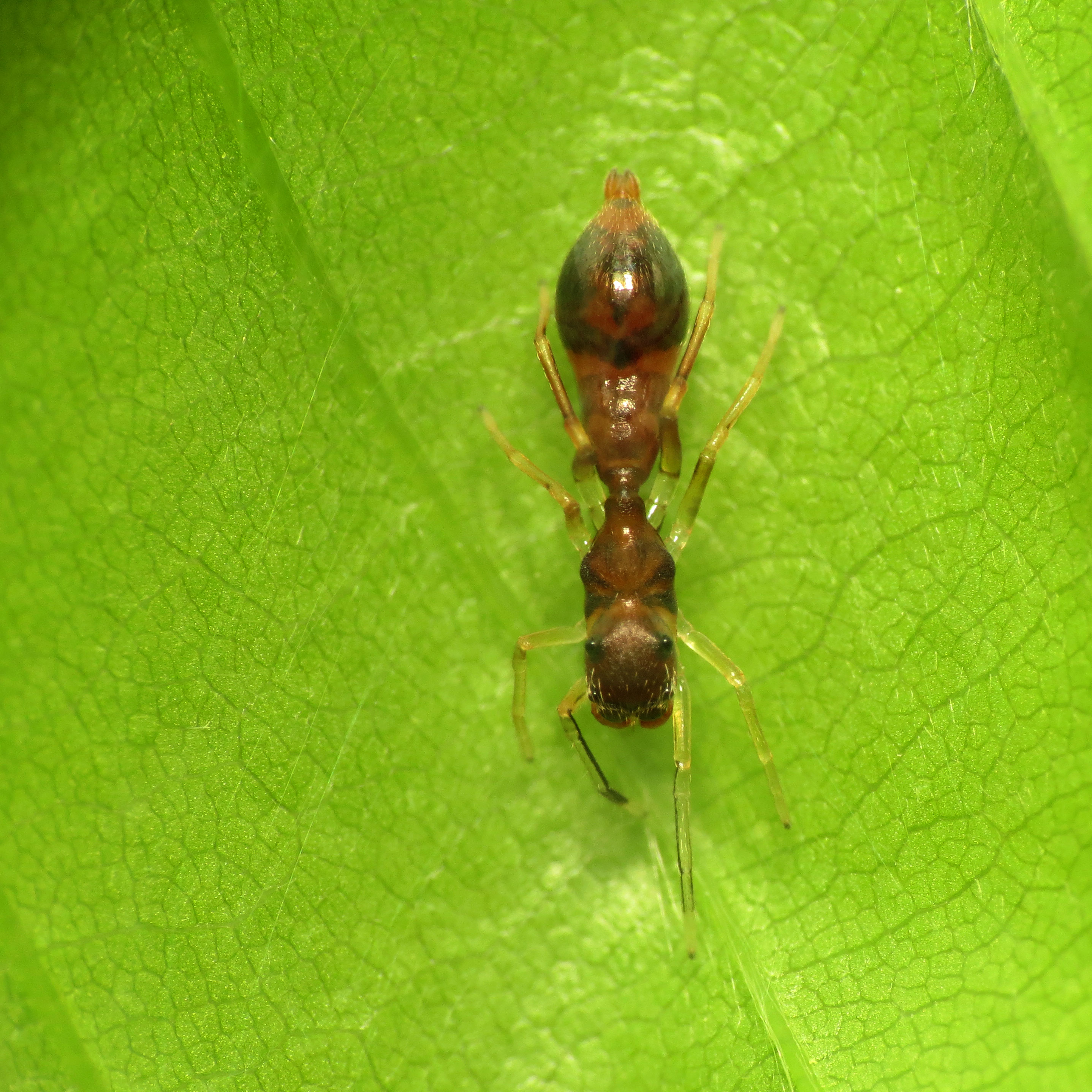 Synemosyna formica. Rock Creek Park, Washington, DC, USA. 3 May 2014.